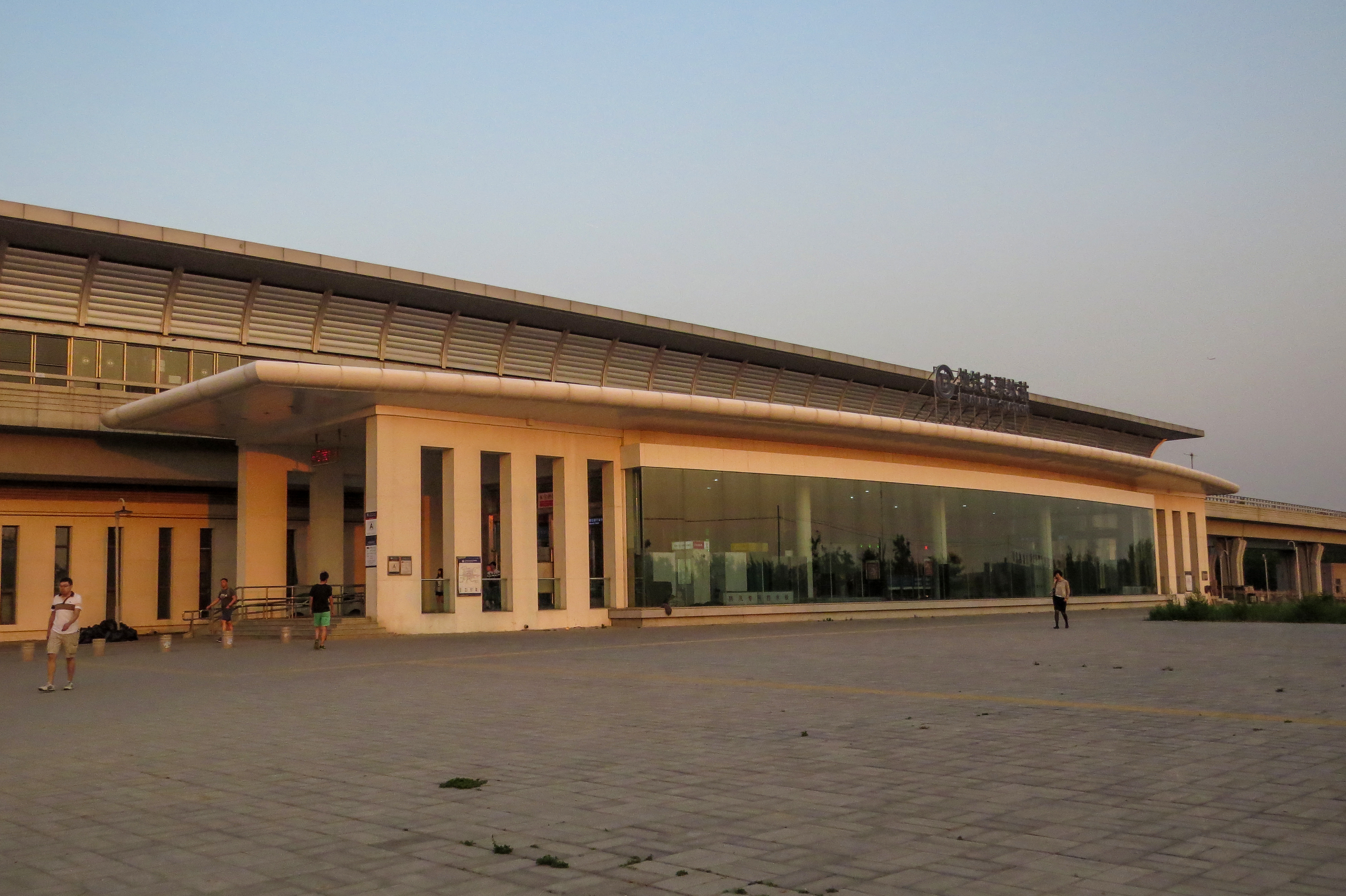 Come a long way from Tiejiangying!